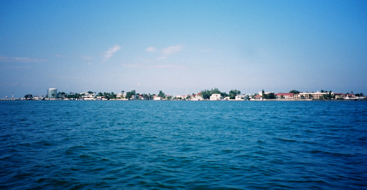 Belize City, Belize, as seen from the sea.Belize City